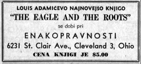 The Eagle and the Roots advertisement in the Enakopravnost newspaper, Cleveland